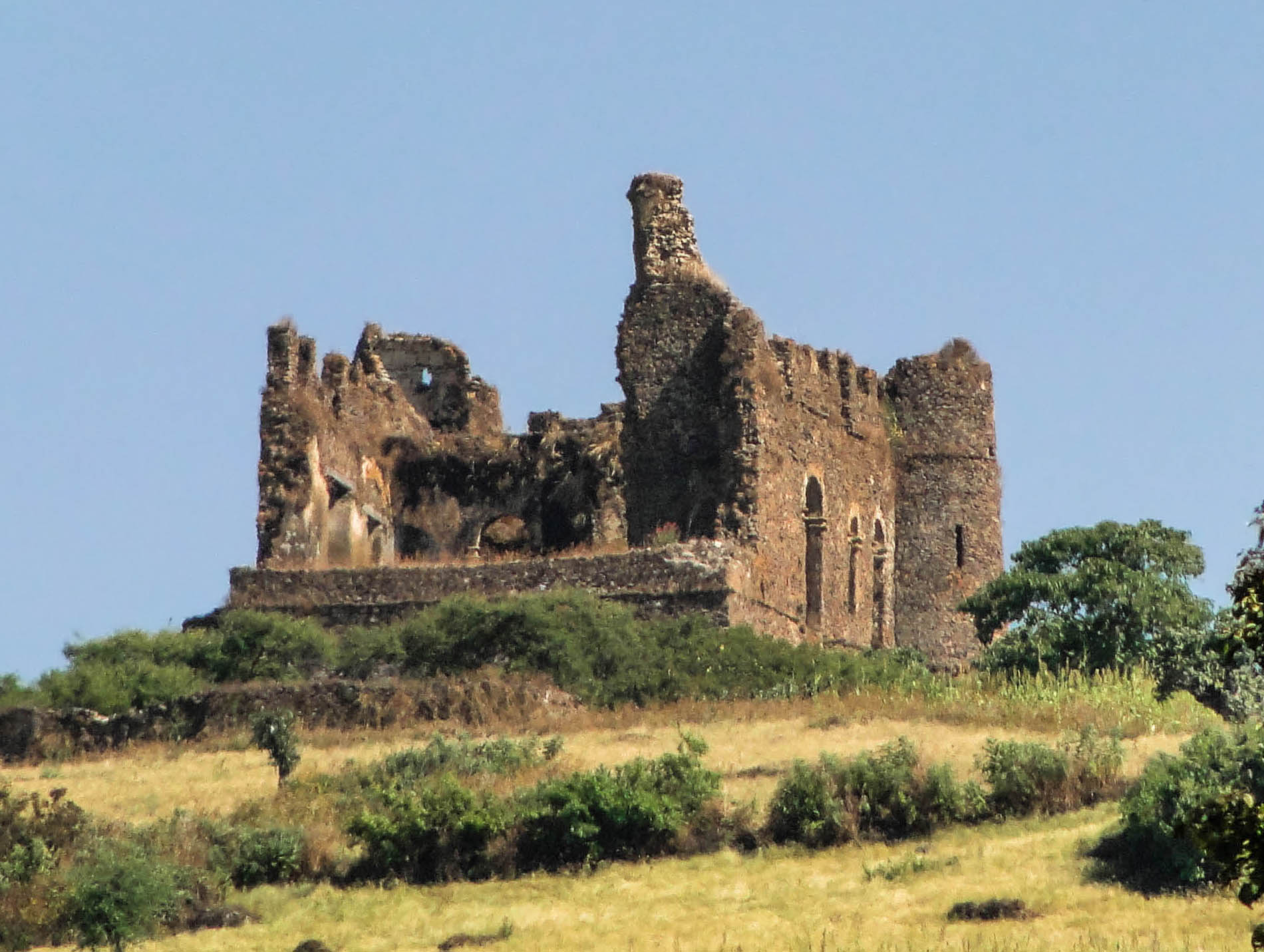 Guzara Palace, Ethiopia